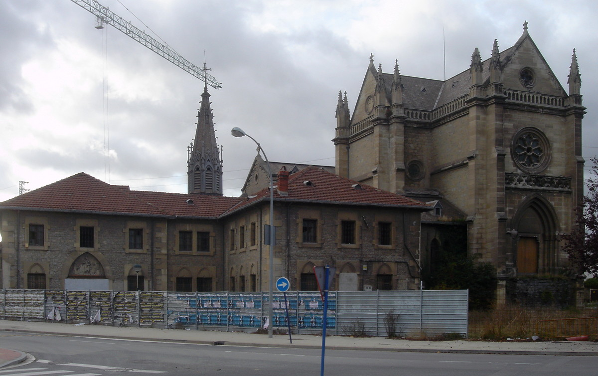 KREA Gasteiz (Basque Country, Spain)